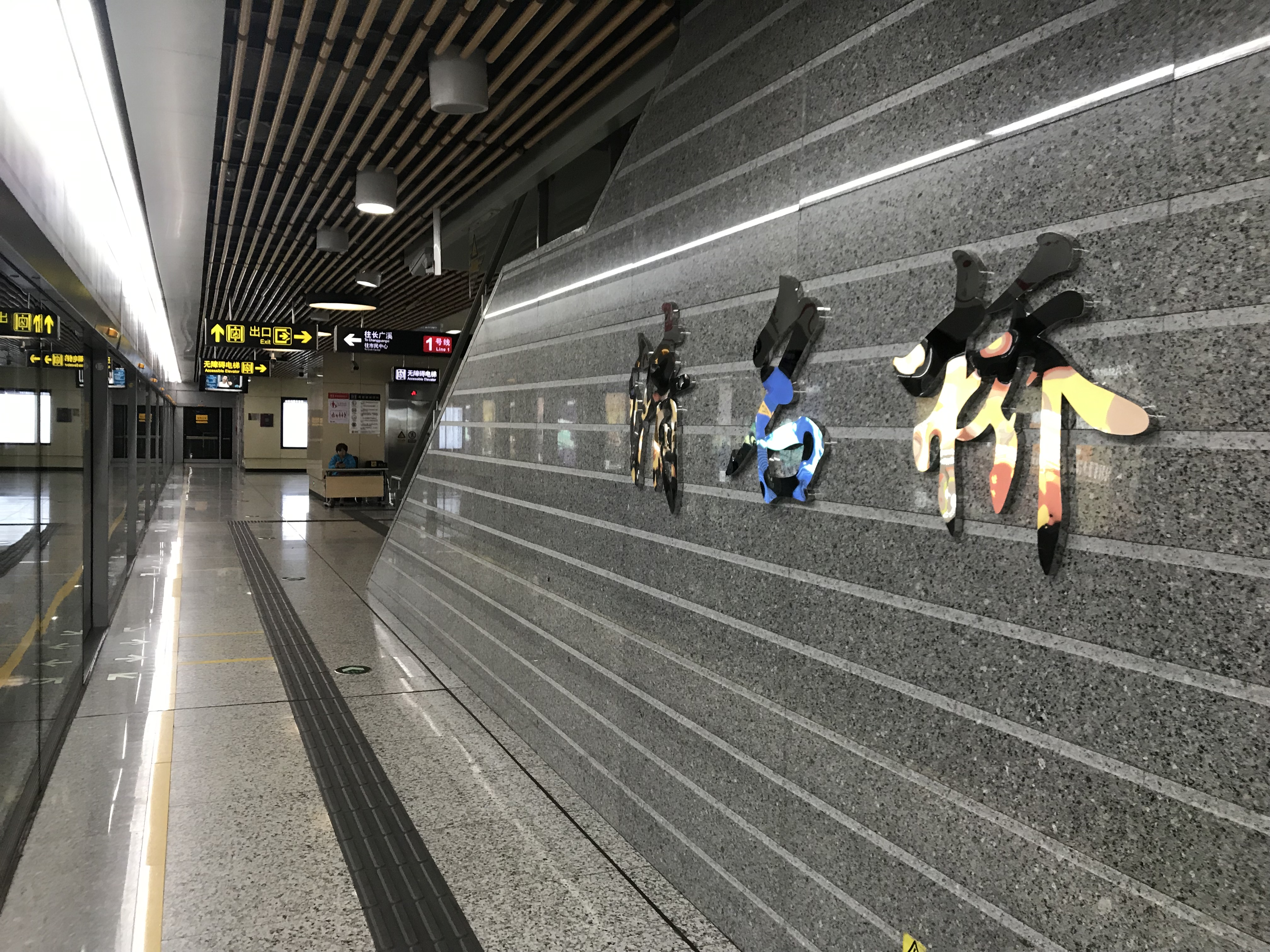 201906 Nameboard of Qingmingqiao Station